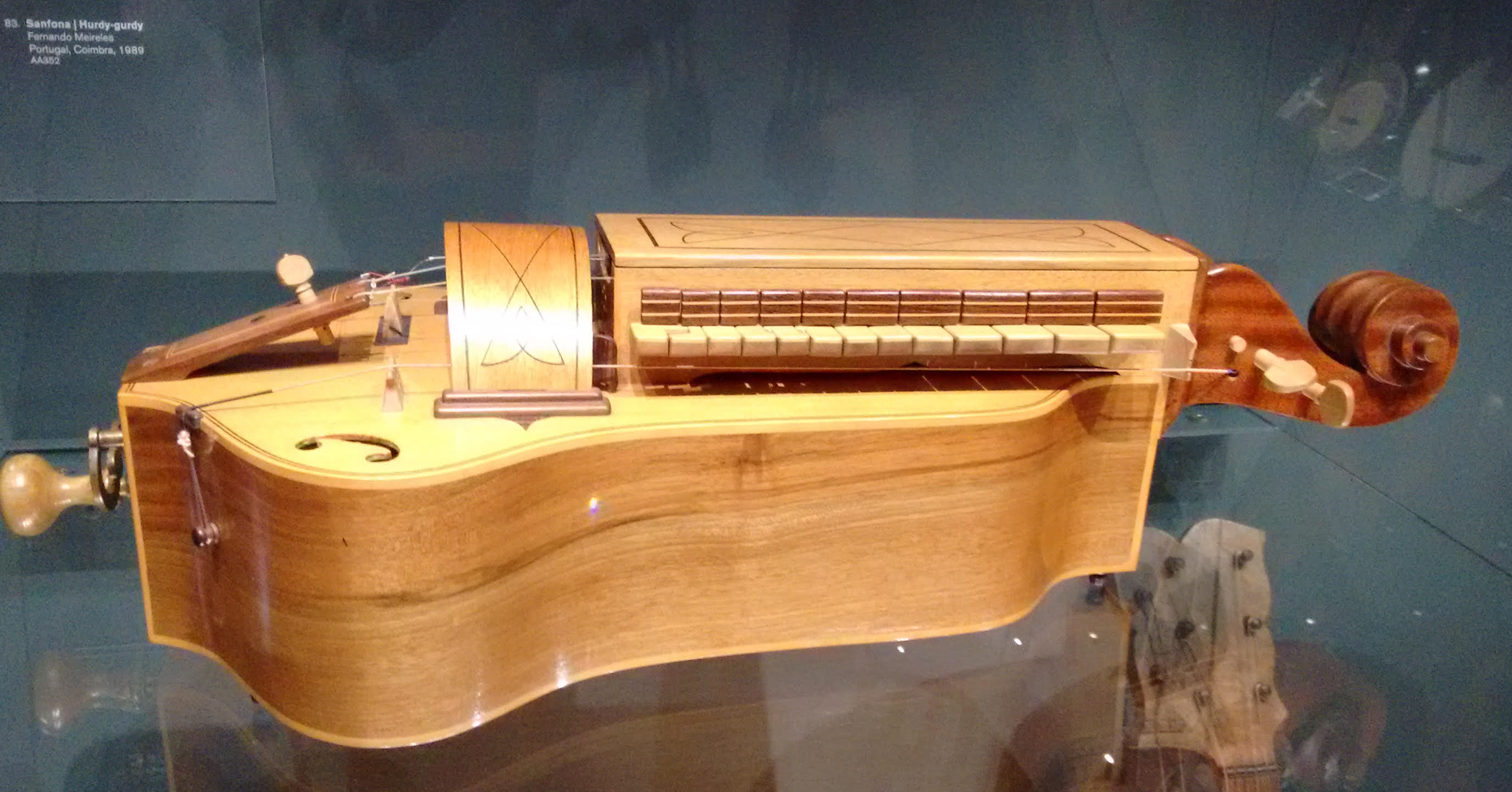 Portuguese Hurdy-Gurdy at the Museum of Portuguese Music, Estoril, Lisbon District, Portugal